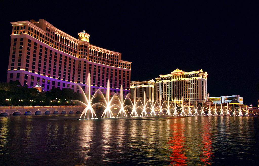 The Amazing Bellagio Fountains at night